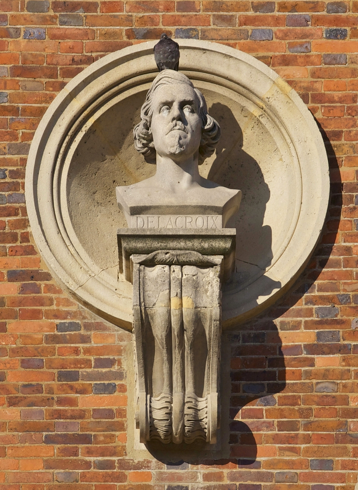 Bust to Delacroix (1798-1863), by Alfred Lepère (french, 1827-1904). Garden facade of the Musée du Luxembourg [facade of the Orangerie].